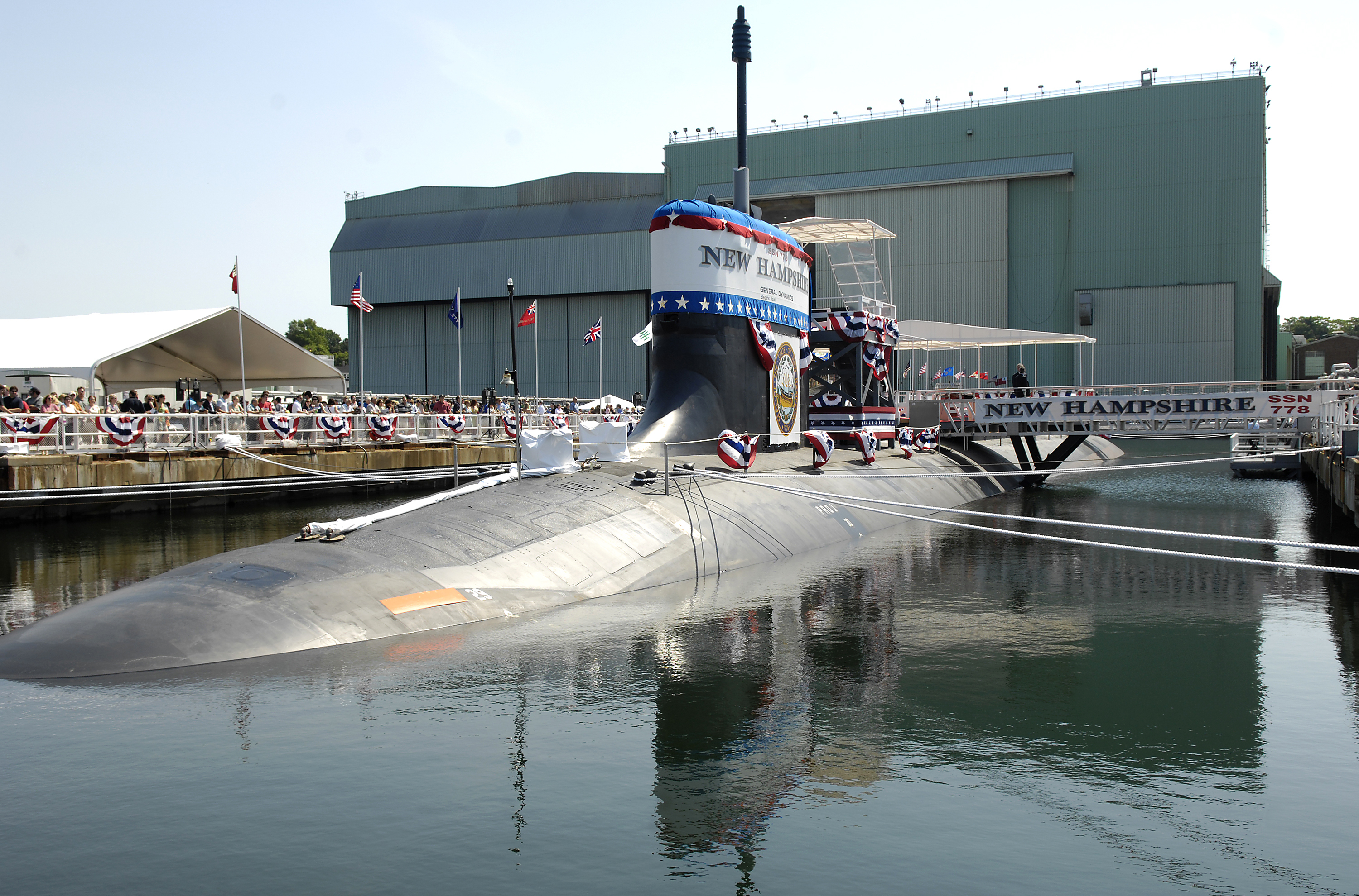 GROTON, Conn. (June 21, 2008) Pre-commissioning Unit New Hampshire (SSN 778) sits moored to the pier at General Dynamics Electric Boat shipyard moments before her christening ceremony commenced. New Hampshire, the fifth Virginia class submarine built, was officially christened by sponsor Cheryl McGuinness. U.S. Navy photo by John Narewski (Released)